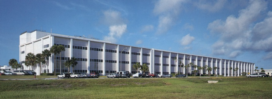 Kennedy Space Center Operations and Checkout Building Object location28° 31′ 25″ N, 80° 38′ 47″ W